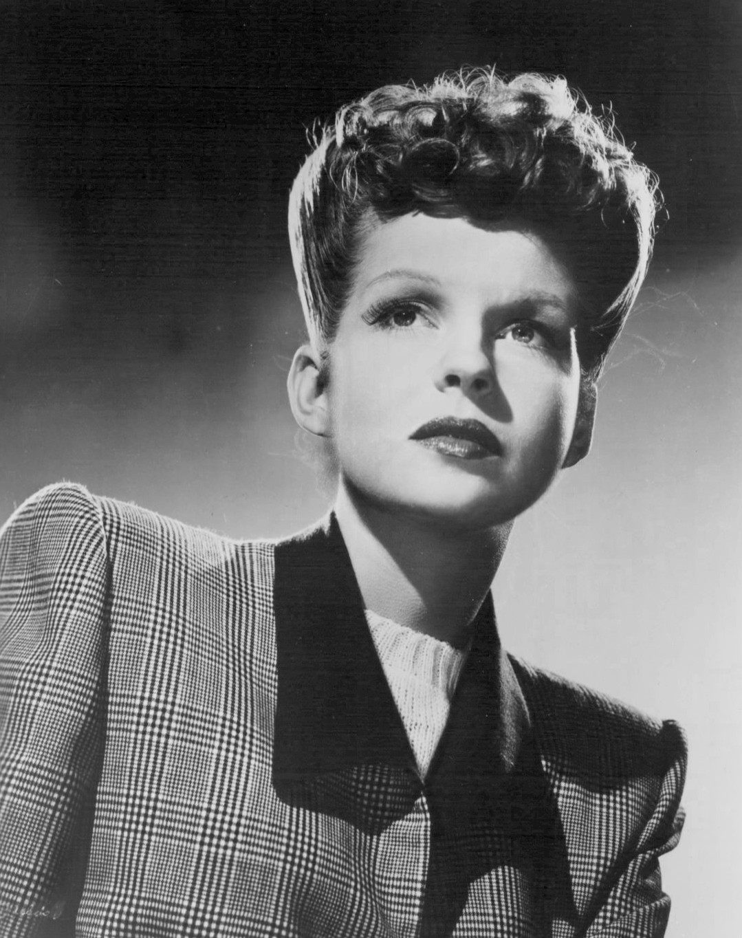 Photo of actress Betty Betty Field from the television series Justice. Field played the role of the wife of a hit and run driver in the episode "Hit and Run". The item has no copyright markings on it as can be seen in the links above.